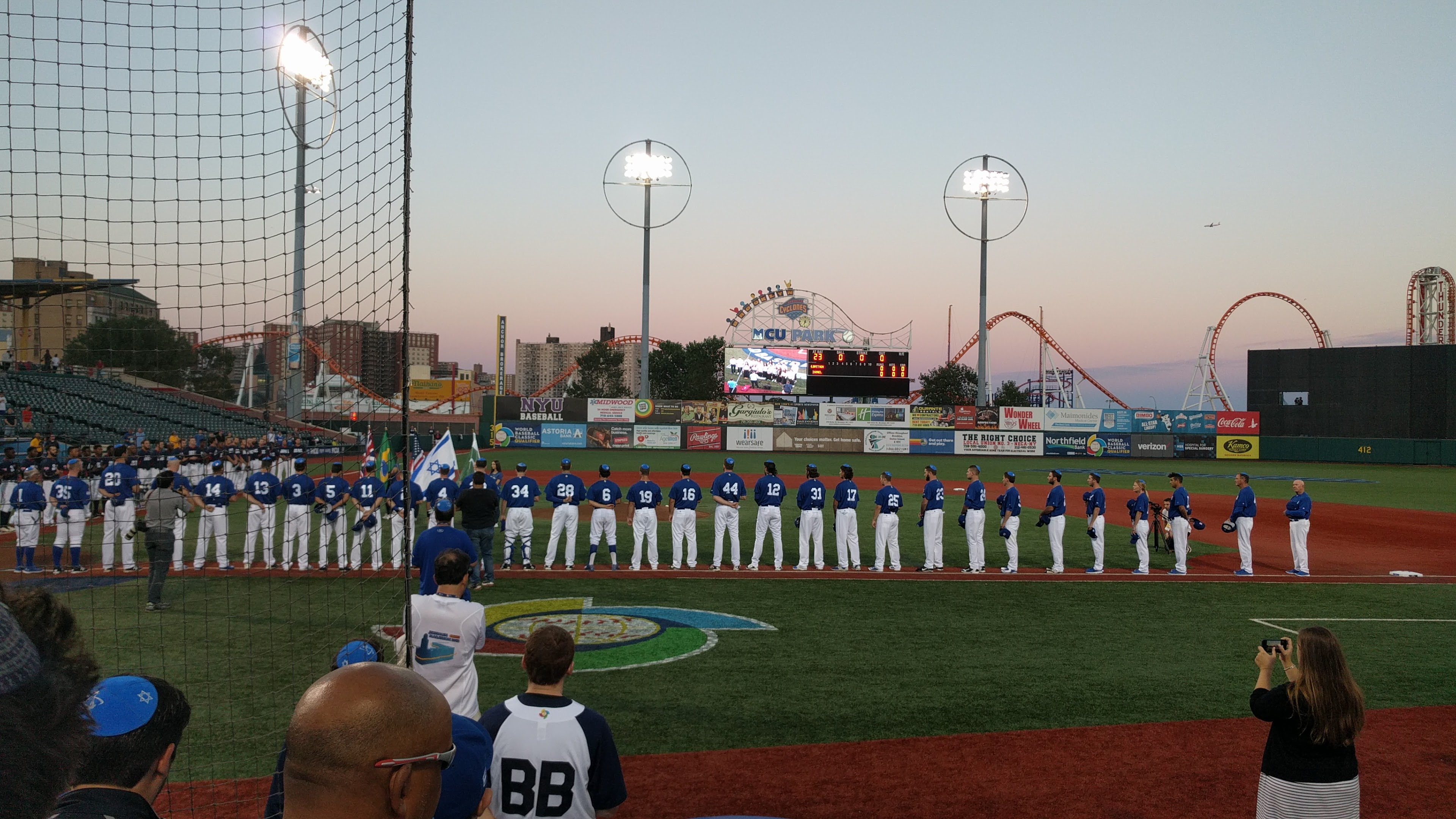 Photo that I took during the game between Israel and UK on 9/22/16 - GalatzTalk 14:24, 26 September 2016 (UTC)